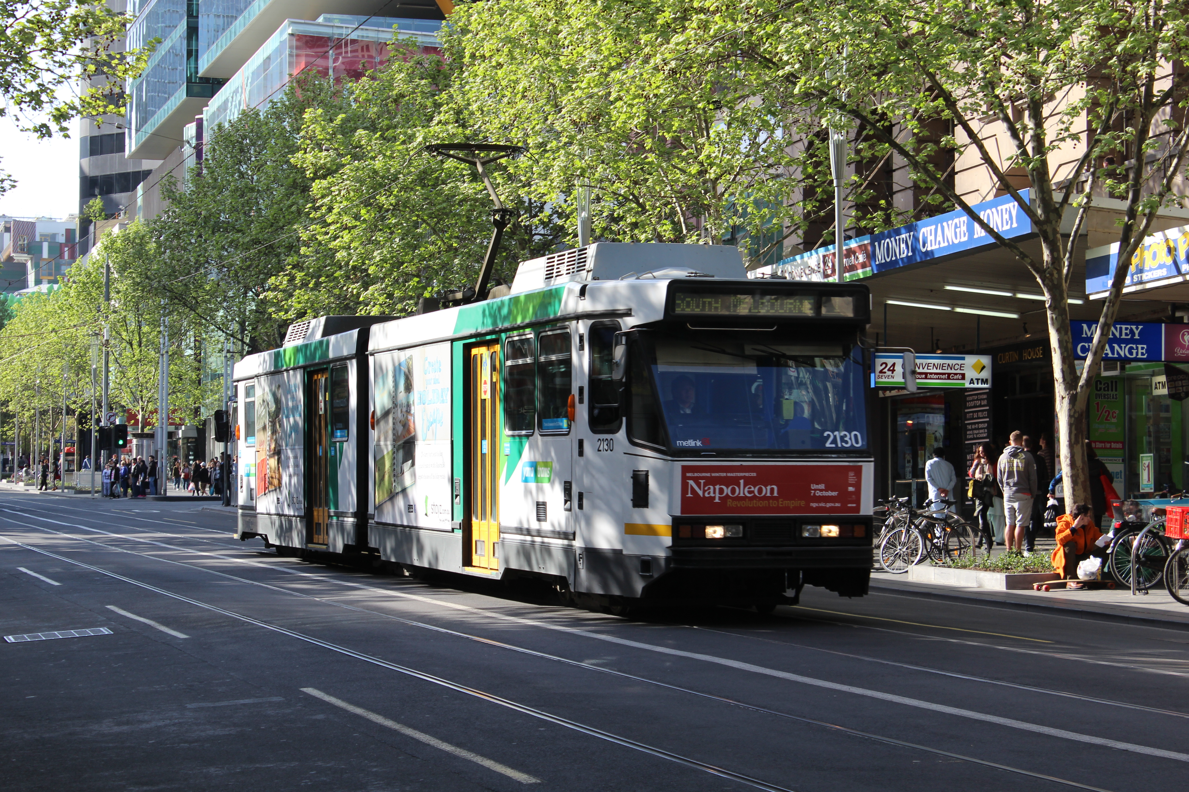 B2 2130 in Swanston St on route 1